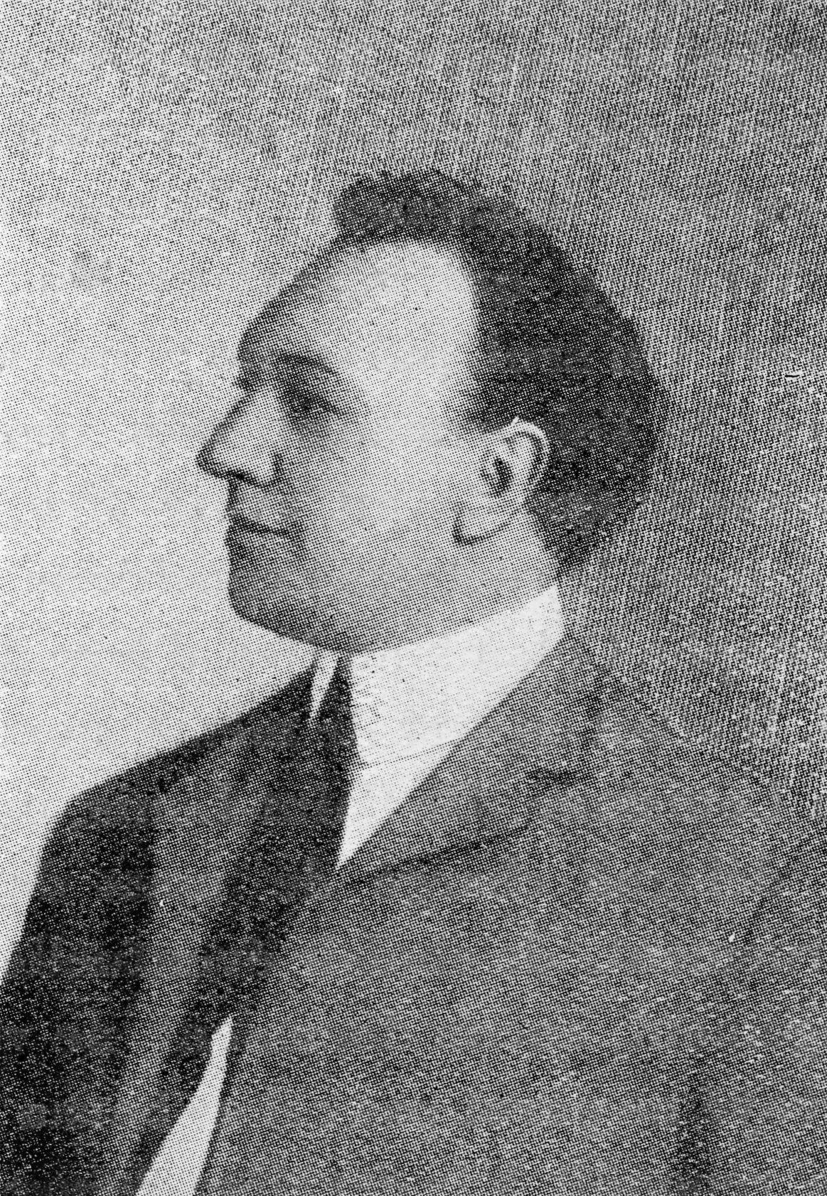 Book by Pierre de Coubertin